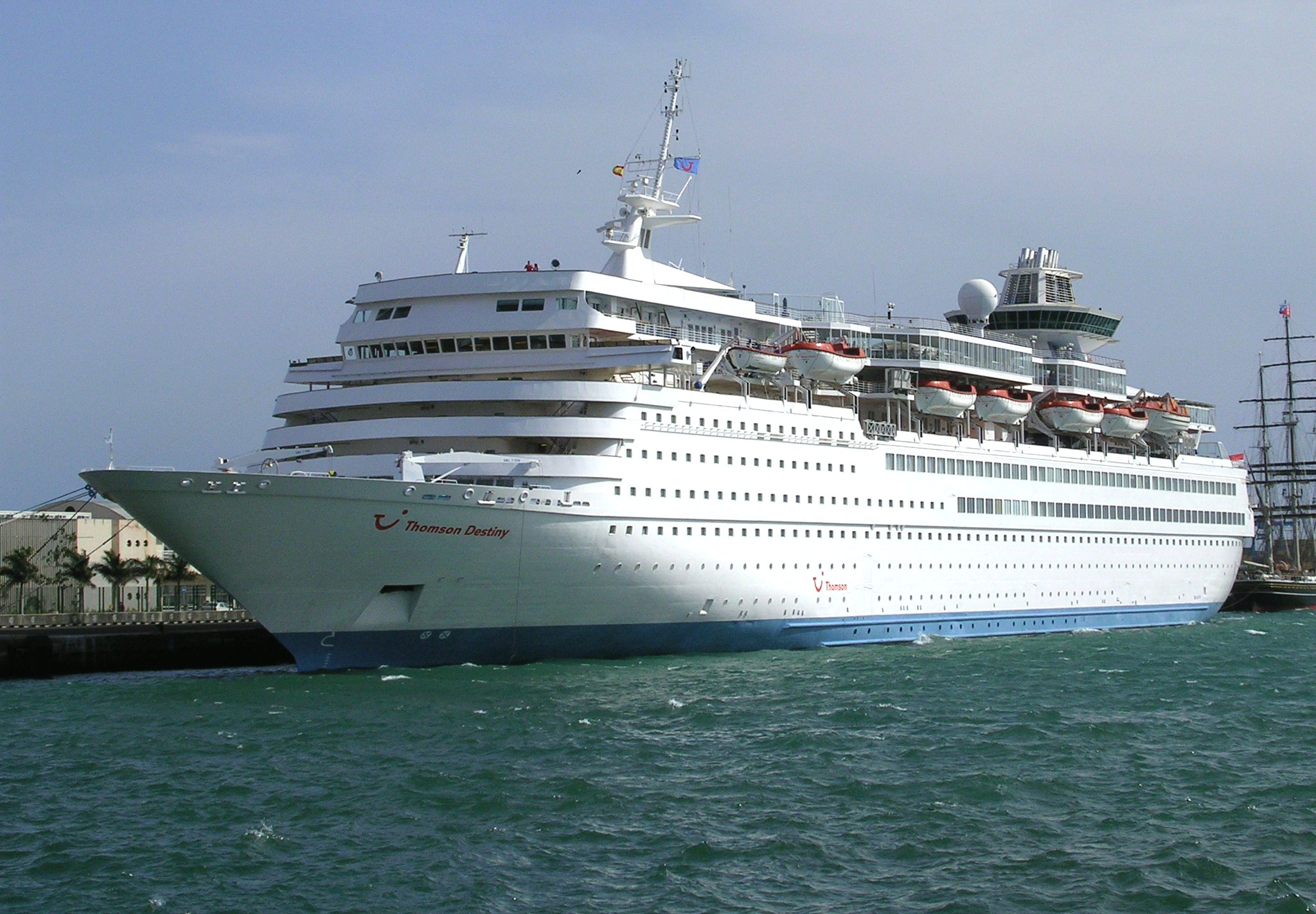 M/S Thomson Destiny (ex-Song of America, Sunbird) at Gran Canaria.